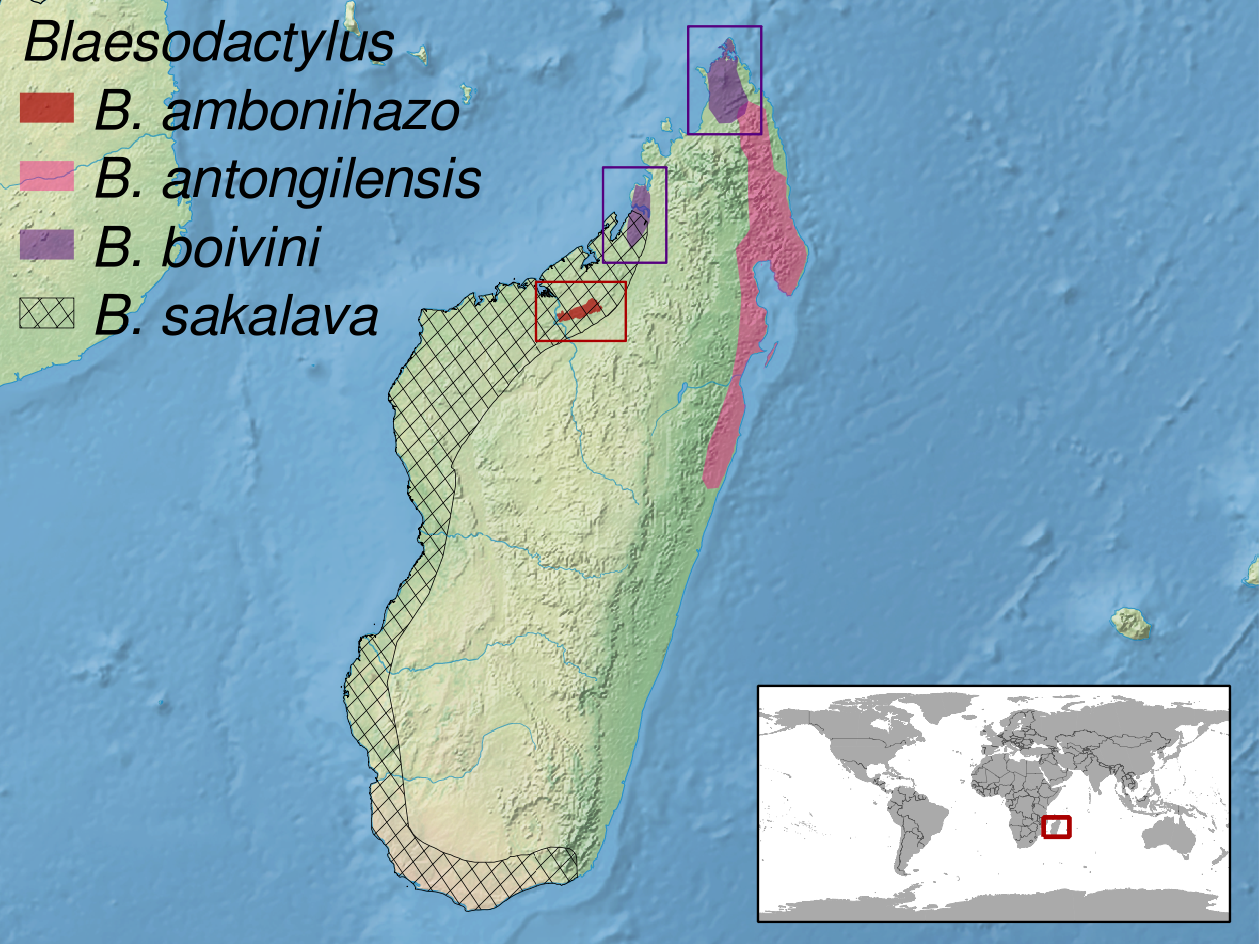 geographic distribution of the genus Blaesodactylus (Native: Madagascar) included species: Blaesodactylus ambonihazo, Blaesodactylus antongilensis, Blaesodactylus boivini and Blaesodactylus sakalava